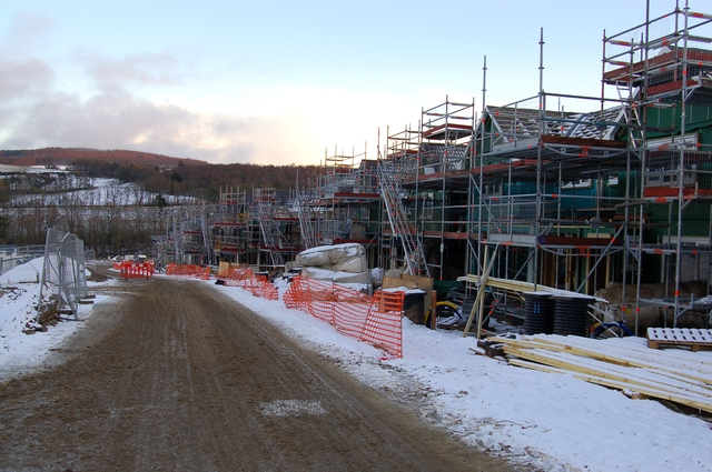 A new housing development at Blackburn, Aberdeenshire, in early 2007